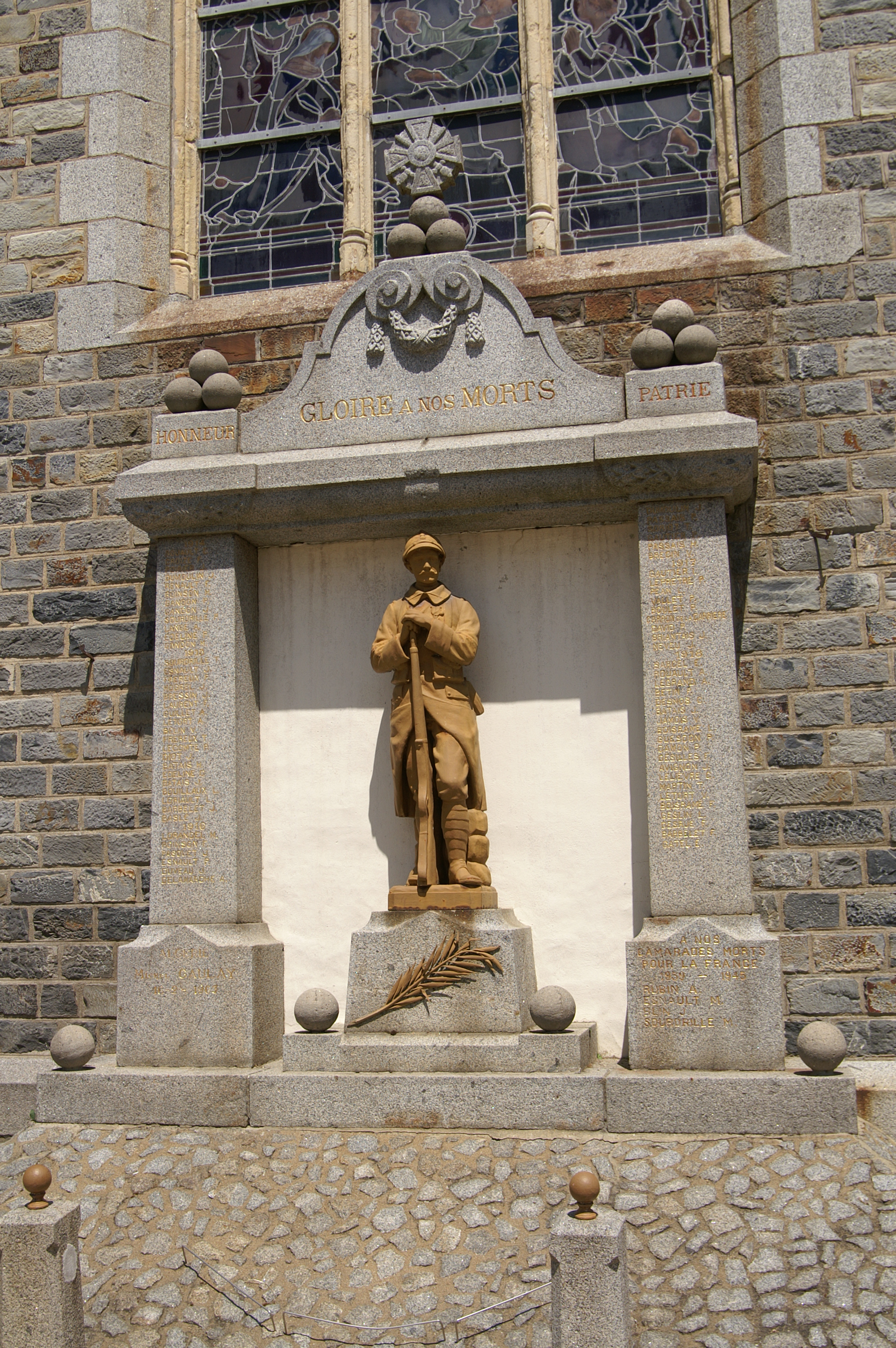 War memorial of Domagné.